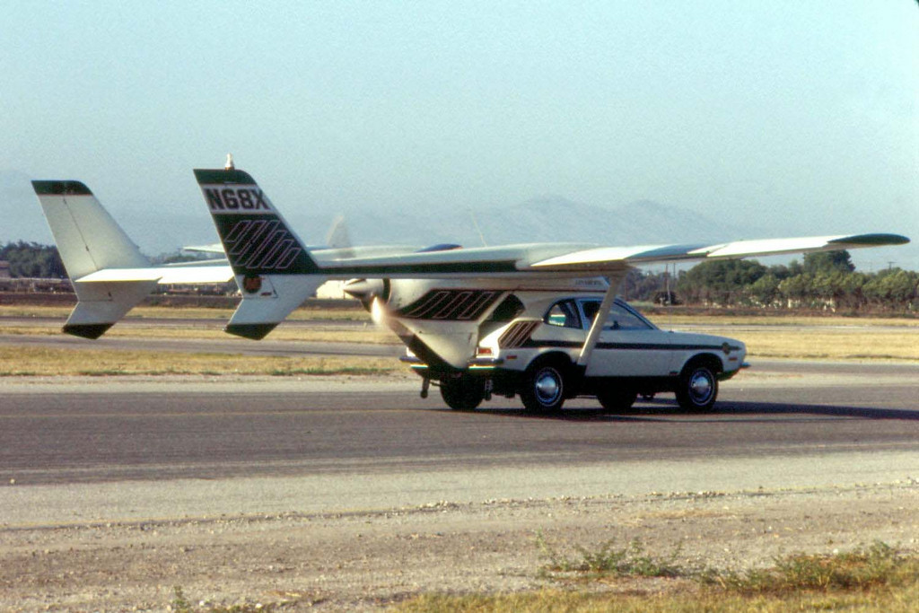 Advanced Vehicle Engineers (AVE) Mizar [1973] N68X Oxnard Airport, Oxnard, California - August 1973